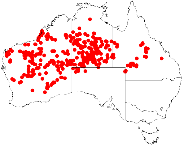 Scaevola parvifolia occurrence data downloaded from Australasian Virtual Herbarium on 12 May 2019